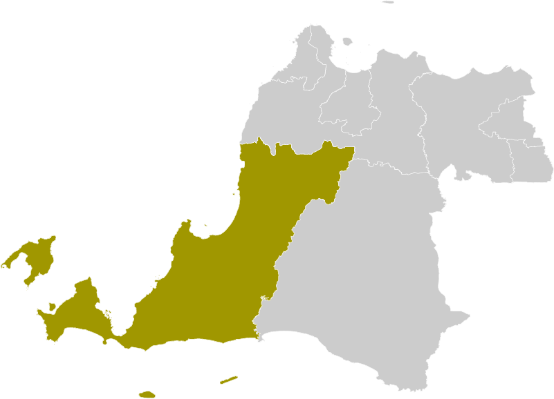 Pandeglang county in Banten province, Indonesia